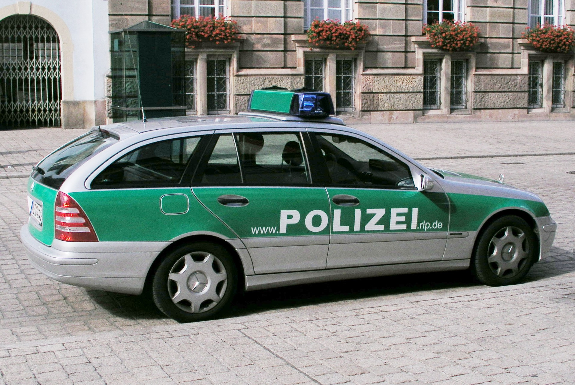 Police-car in Speyer (Speyer, RLP, Germany)